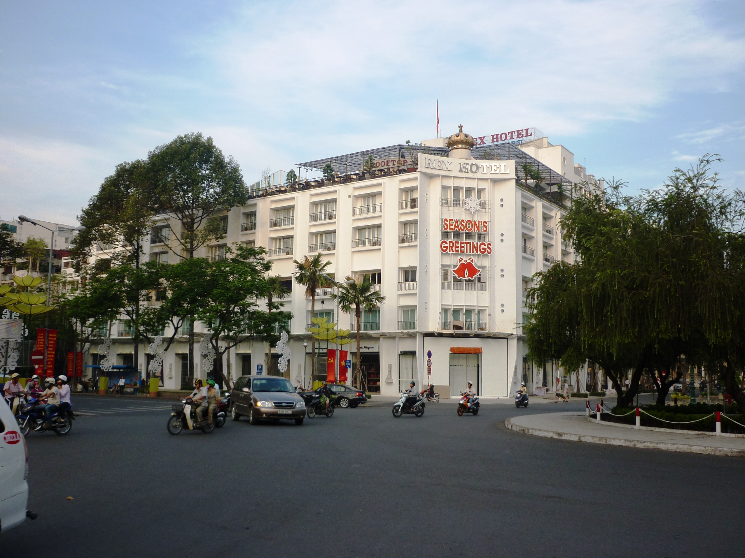 Rex Hotel is located on the corner of Le Loi and Nguyen Hue streets